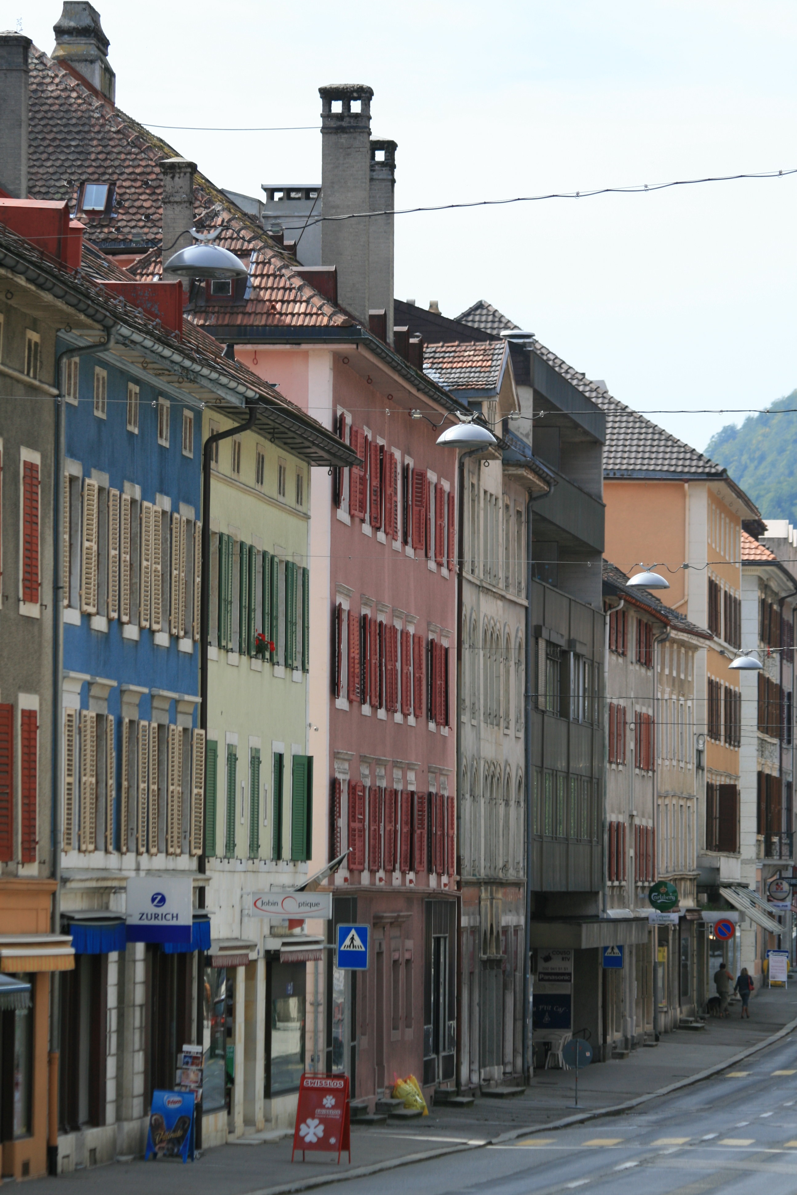 Saint-Imier, Bern, Switzerland